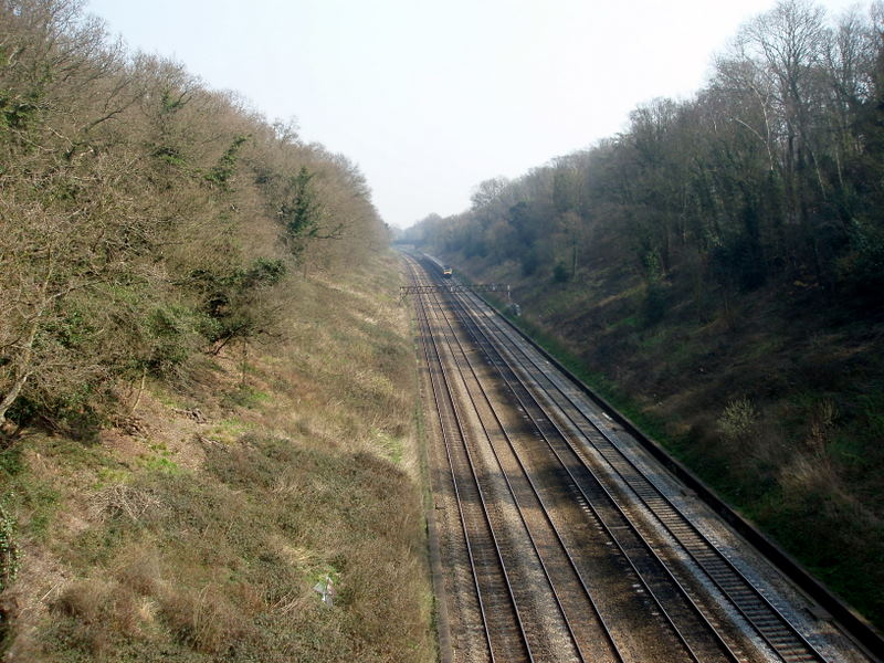 I took this photograph and release it herewith to the public domain. Nick 08:33, 28 March 2007 (UTC)